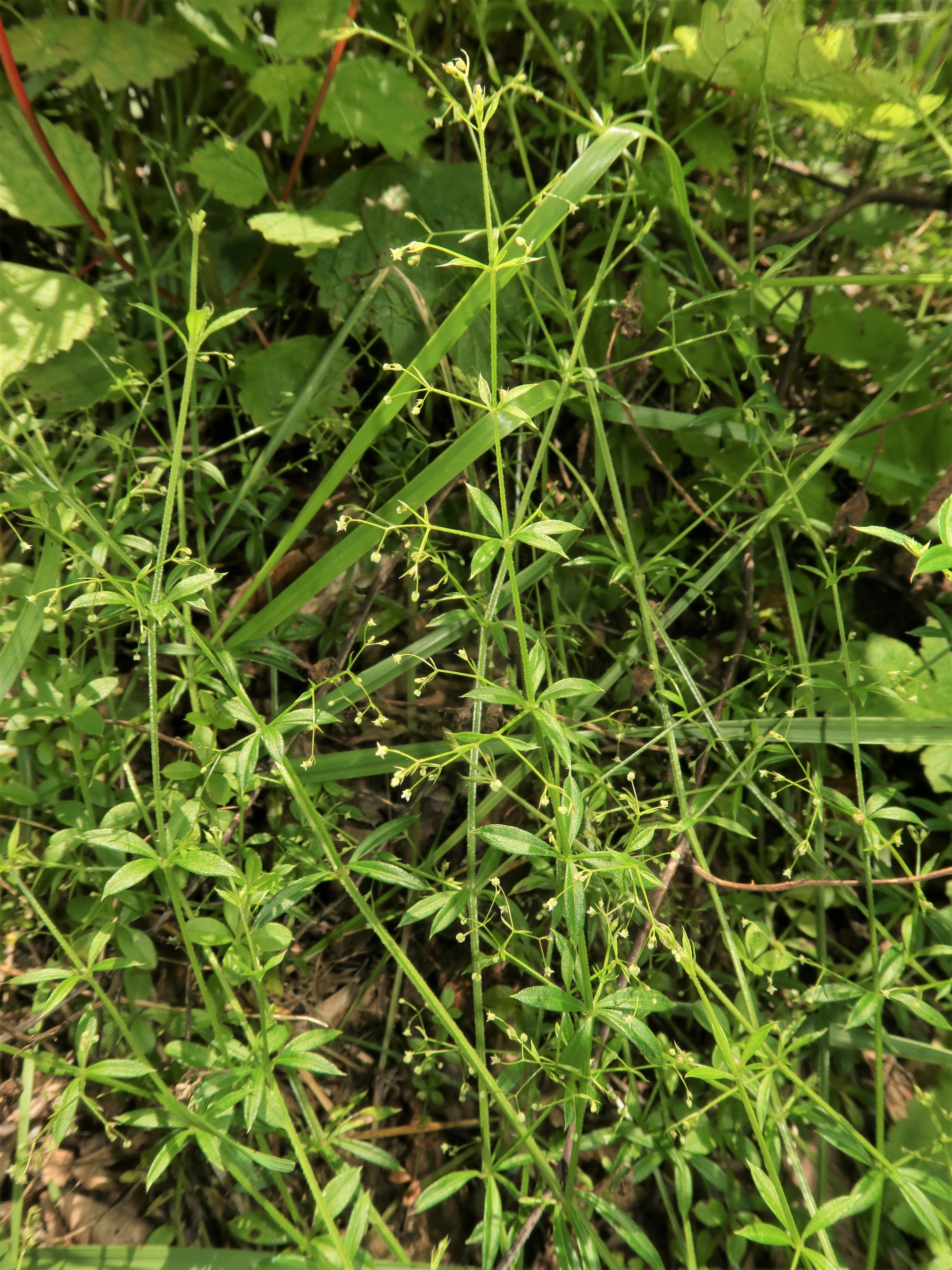 Galium pseudoasprellum, Naka-dori area, Fukushima pref., Japan